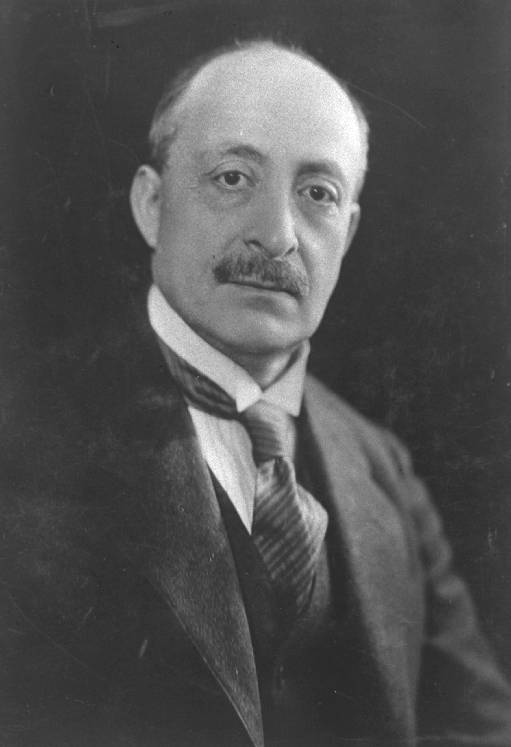 original description:PROF. OTTO WARBURG, PRESIDENT OF THE ZIONIST ORGANIZATION.